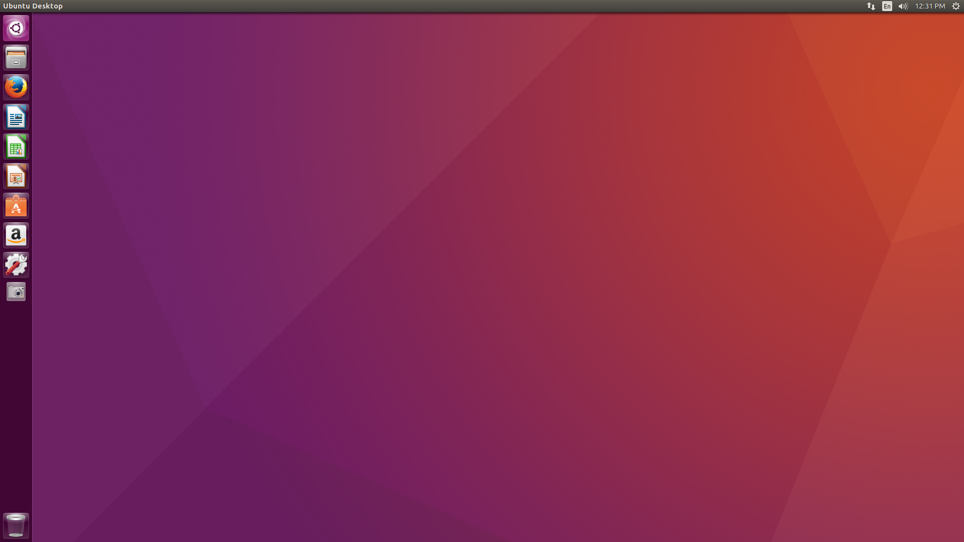 Ubuntu 16.04 LTS Desktop Environment